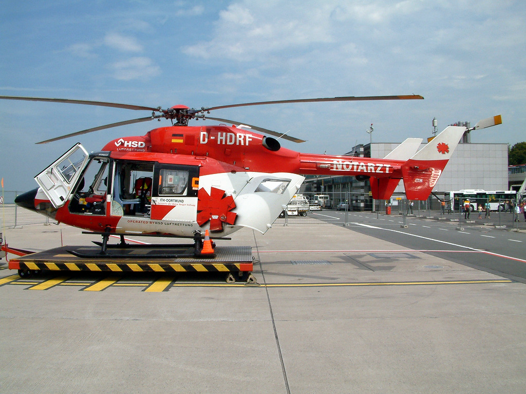 MBB BK 117B-2 intensiv medical care transport helo D-HDRF operated by HSD-Luftrettung at Dortmund Airport (DTM/EDLW).